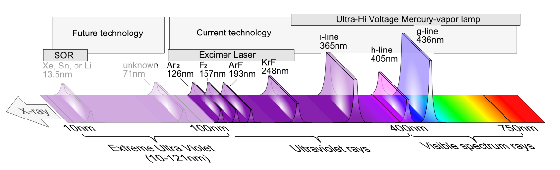 Spectrum of lithography lights